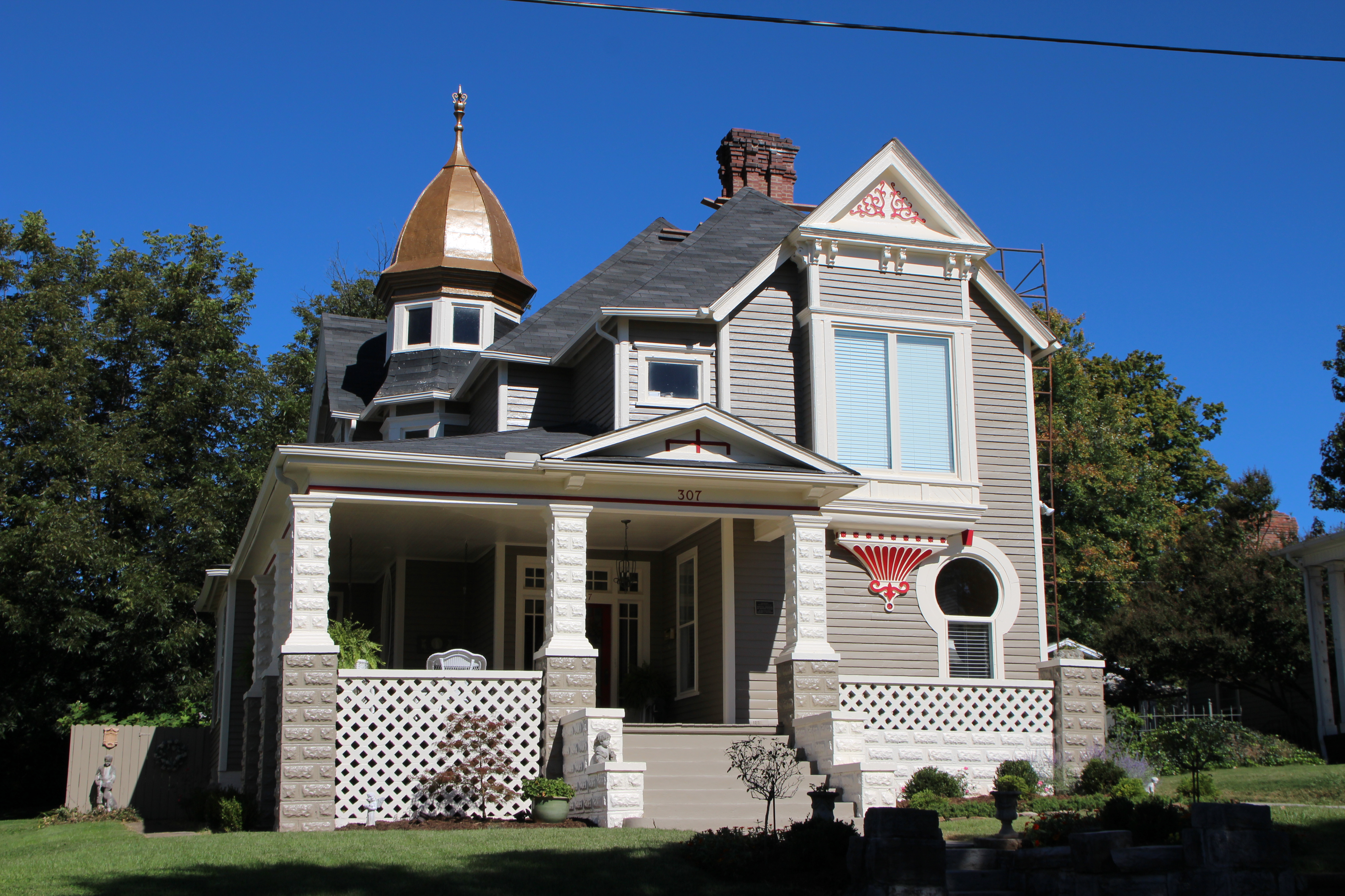 Phillips House